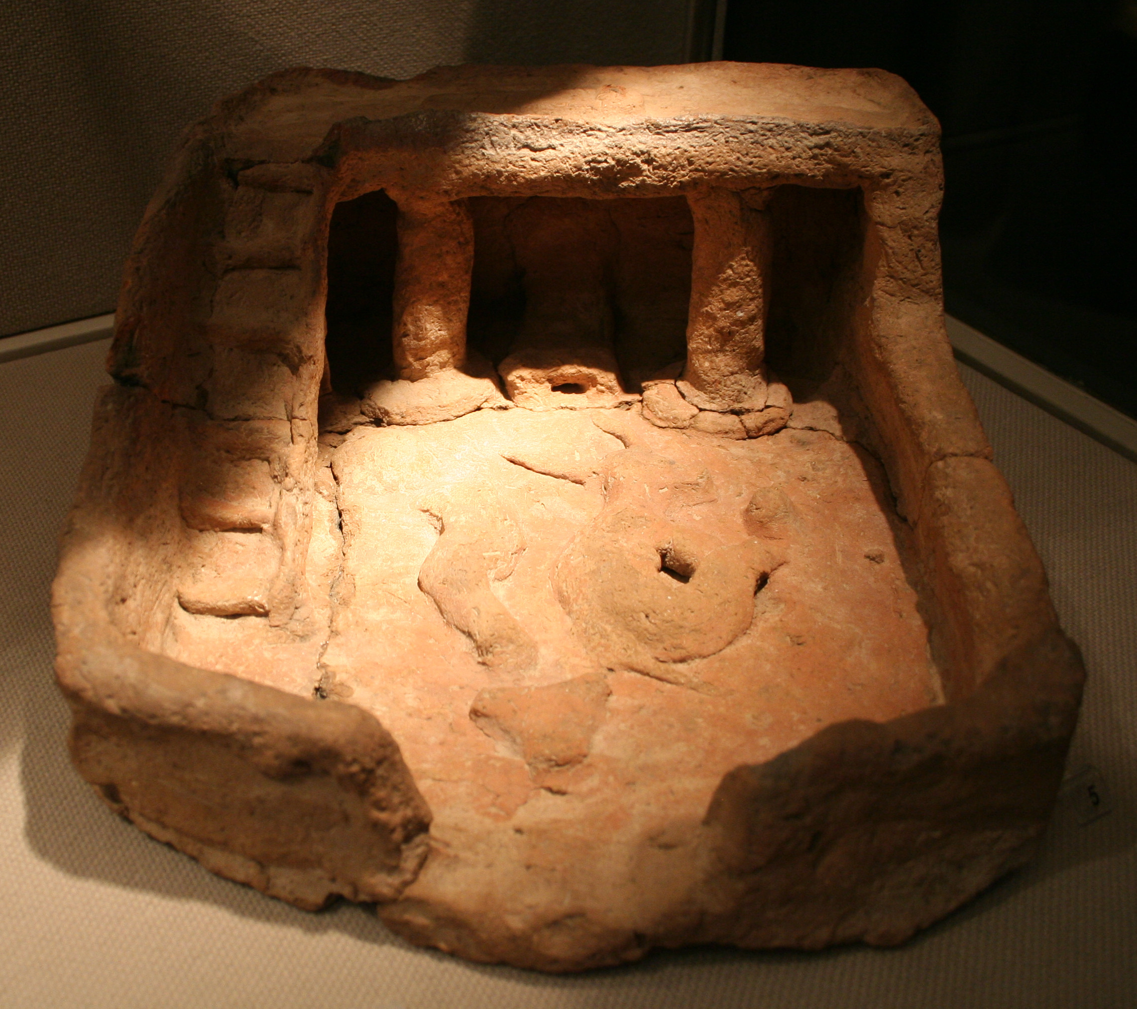 House model, provenance unknown